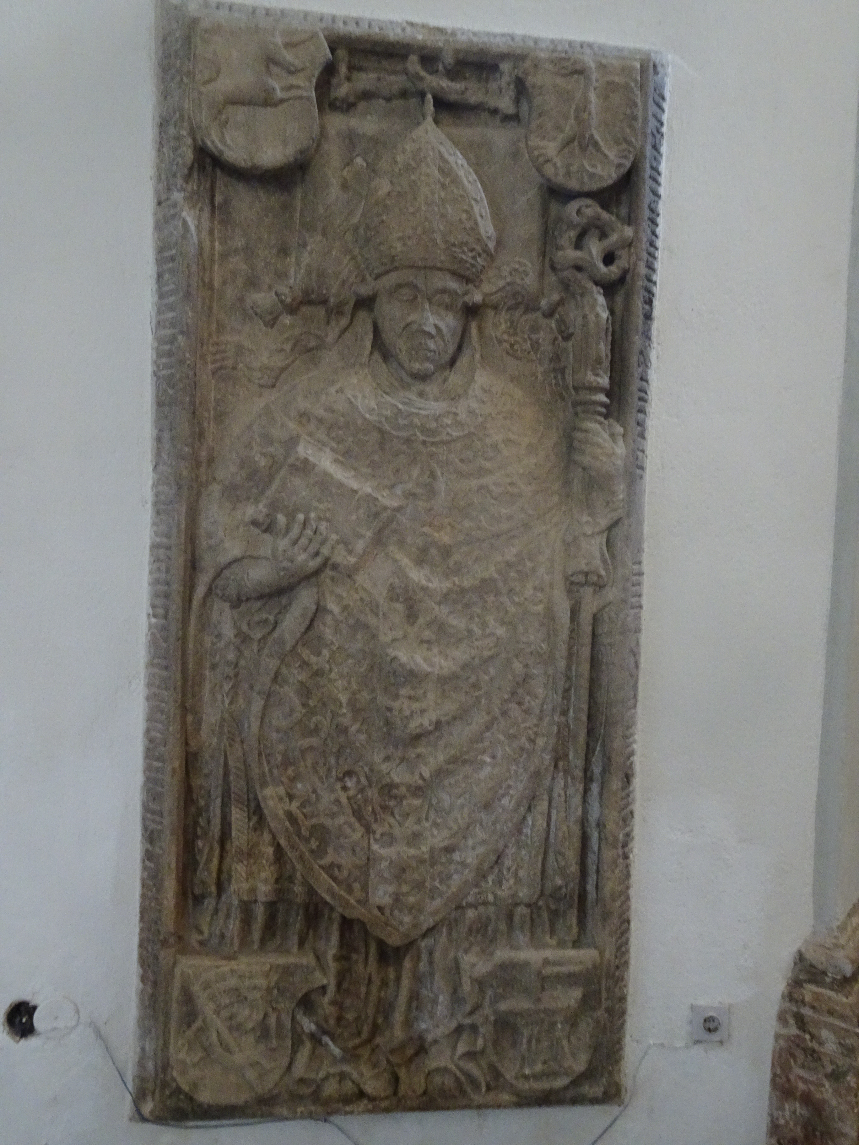 Valentin Vabri's tomstone, Slovenske Konjice, Slovenia